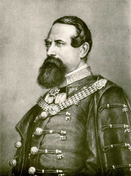 Jovan Subotic (1817-1886)